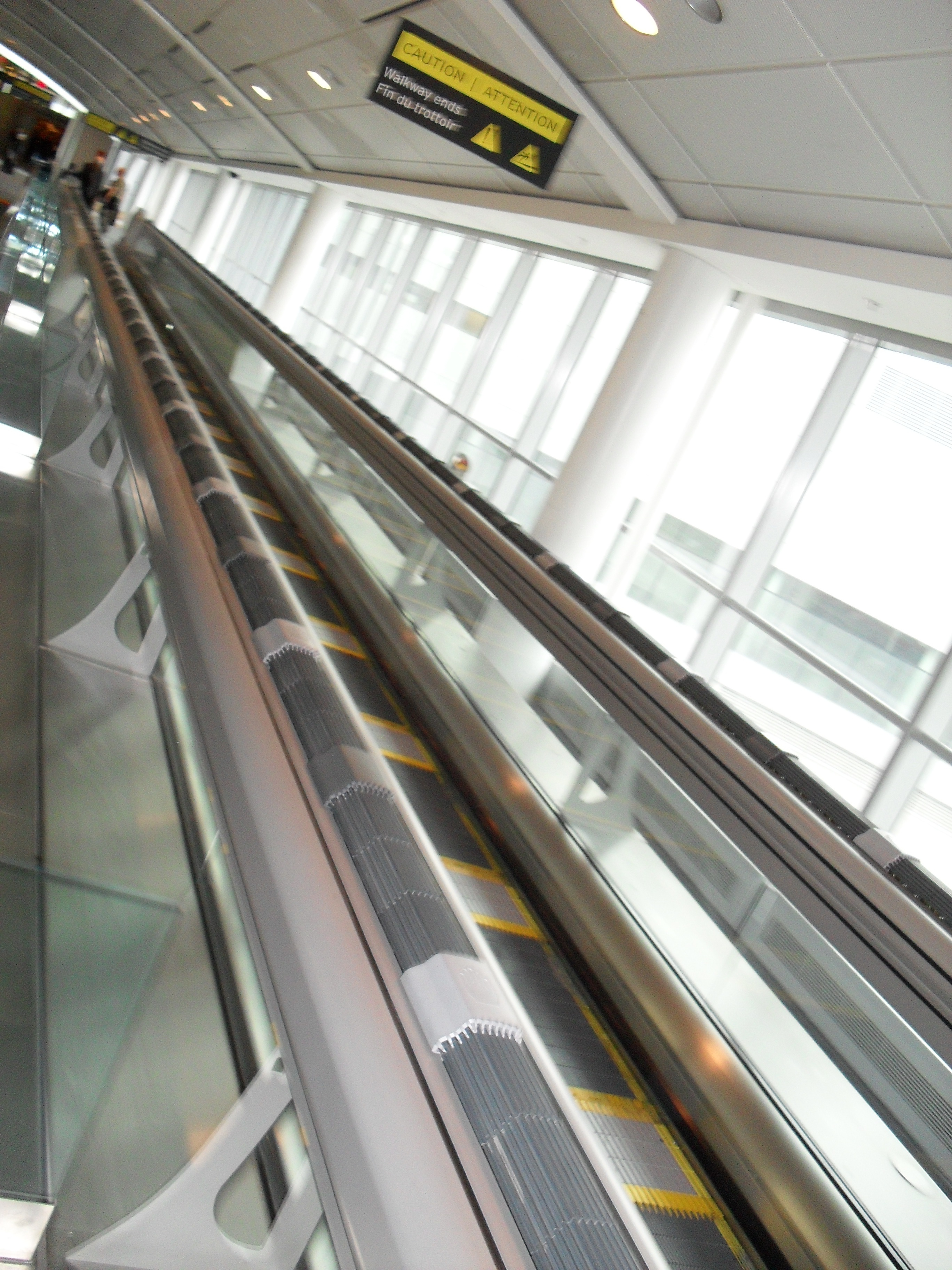 Fast moving sidewalk in Toronto Airport